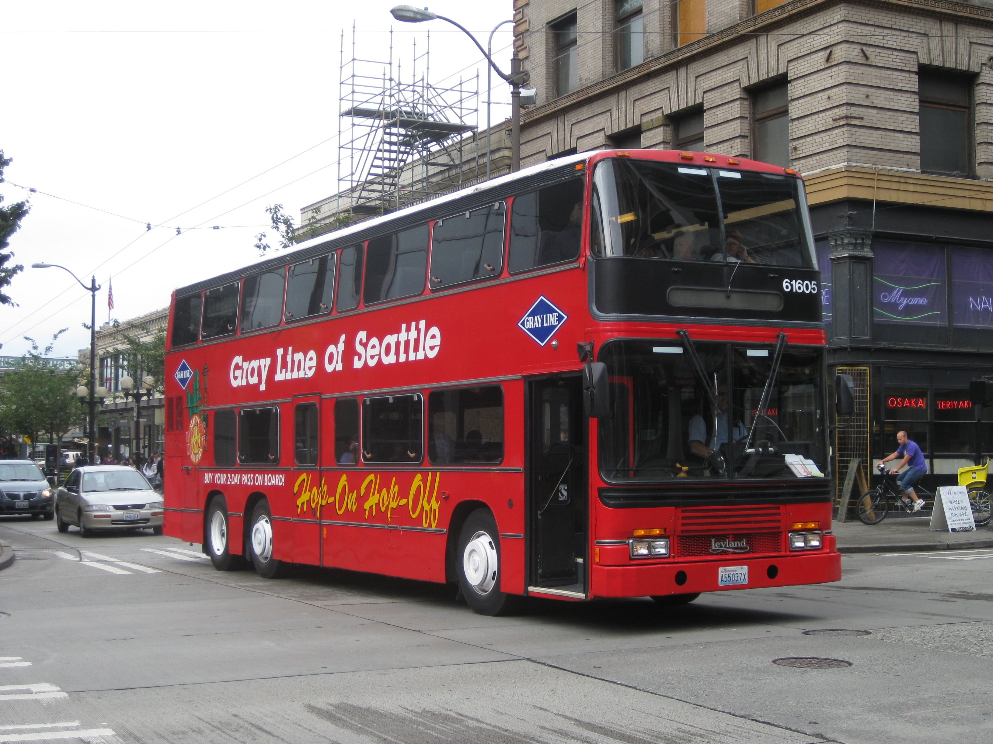 Gray Line, Seattle 61605 A55037X was Grosvenor Coach Lines 605 2W98510 and was part of the batch of 10 built for sightseeing operations in San Francisco. Four of them ended up in Seattle with the Gray Line Sightseeing operation there and during a visit in June 2009 this was the only active one left in original condition as the others had been converted to open top format. This nearside shot shows the coach running with the door open, normal operating mode for this bus with temperamental air-con equipment!